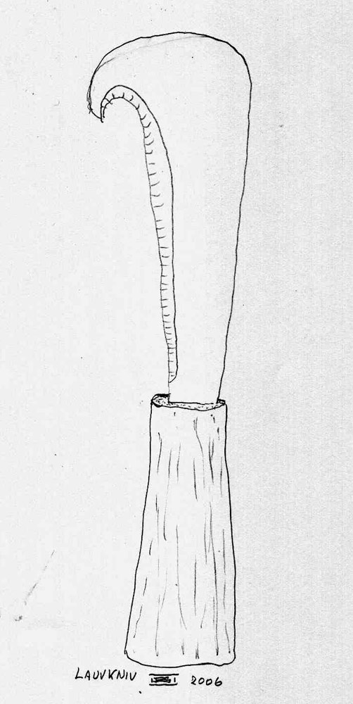 Leafing knife (billhook).